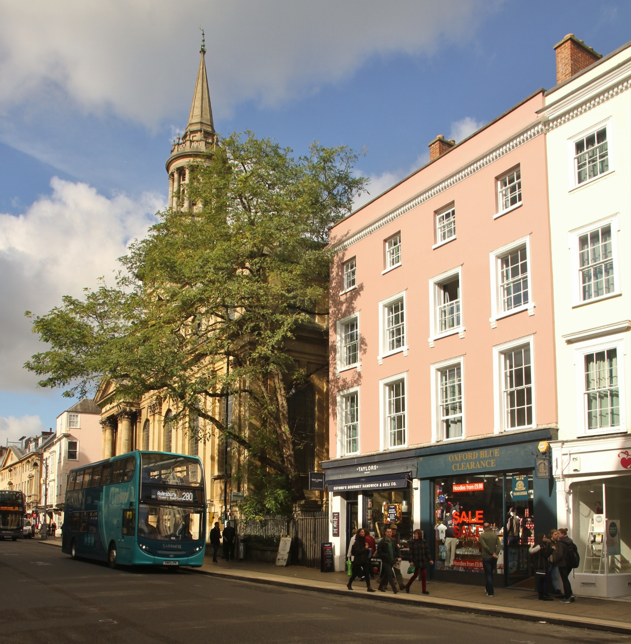 Part of High Street, Oxford, seen from the east. The pink building on the right is 19–20 High Street, which is a timber-framed house with an 18th-century stuccoed façade. On the left beyond the tree is Lincoln College Library, which was built in 1708 as All Saints' parish church. Outside the library is an Arriva the Shires bur on route 280. The bus is an Alexander Dennis Enviro400, registration mark SN15 LPK, fleet number 5461.